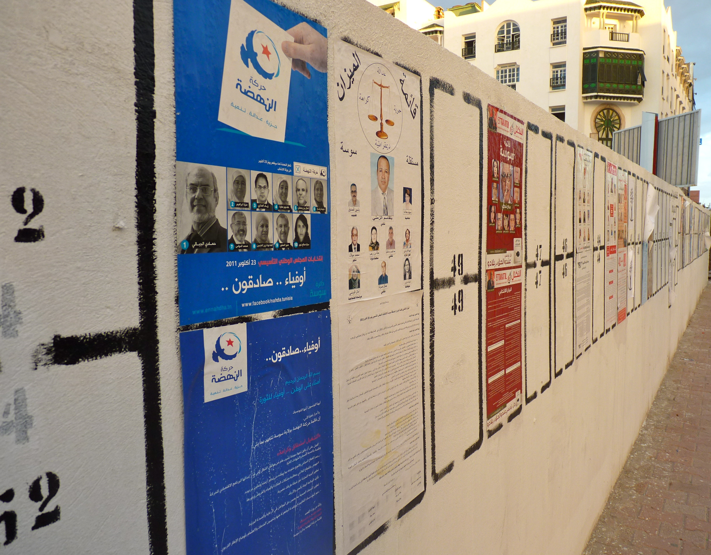 Campaign posters for the October 23rd, 2011 election in Sousse, Tunisia